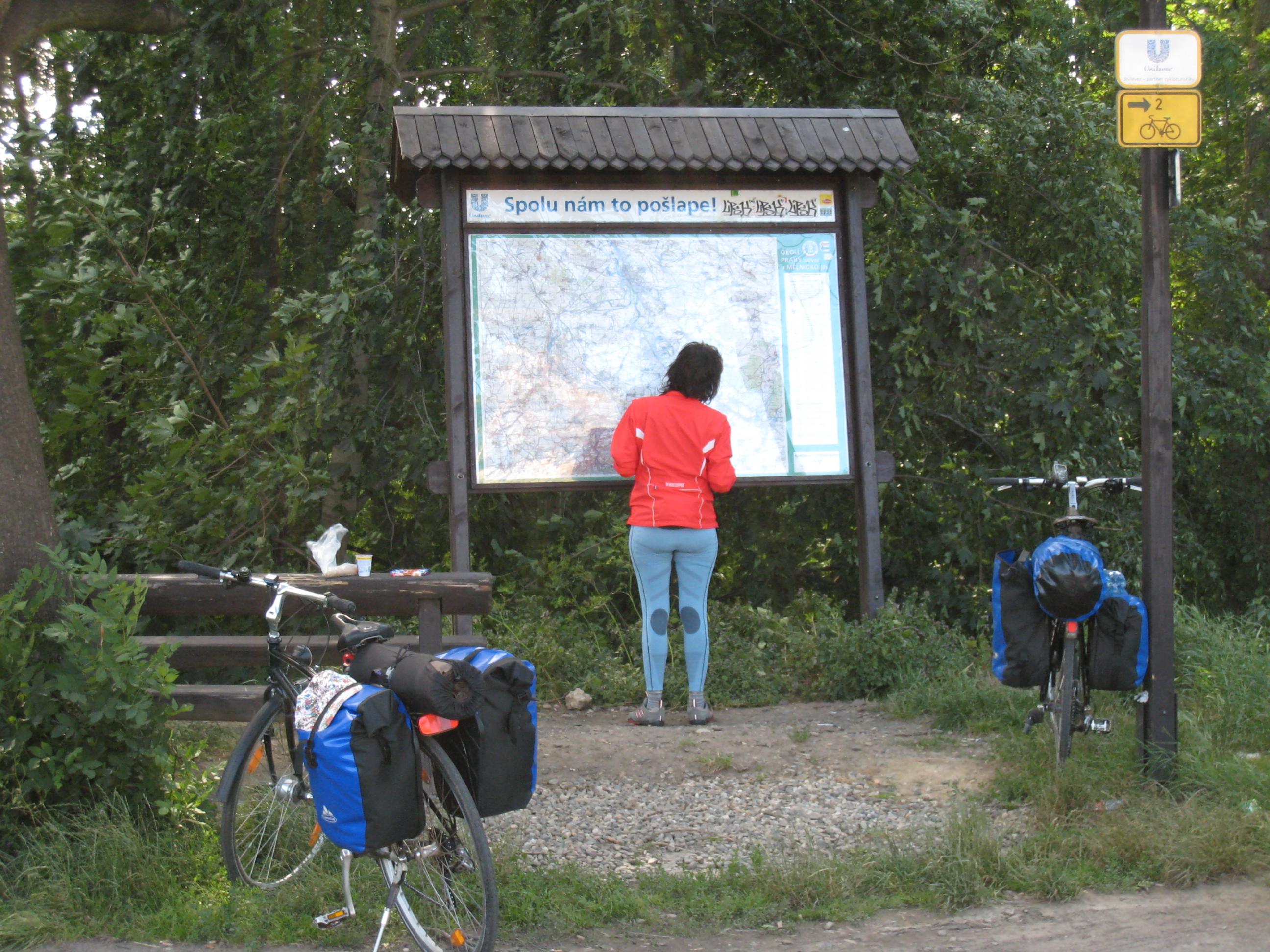 Moldau Bicycle Path near Melnik, Czech Republic